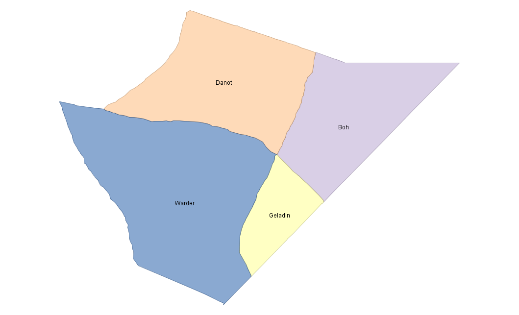 Map of Werder Zone